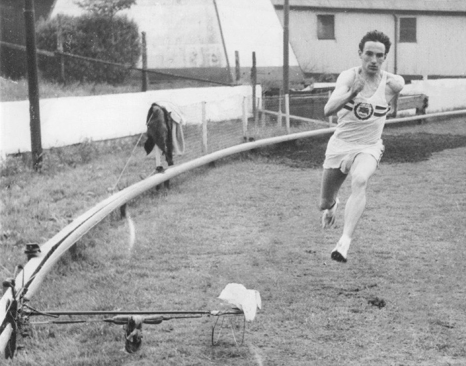 1960 Wolverhampton Greyhound Track Peter Radford Chased Rabbit Press Photo